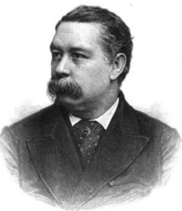 William Hinson Cole, US Representative from Maryland